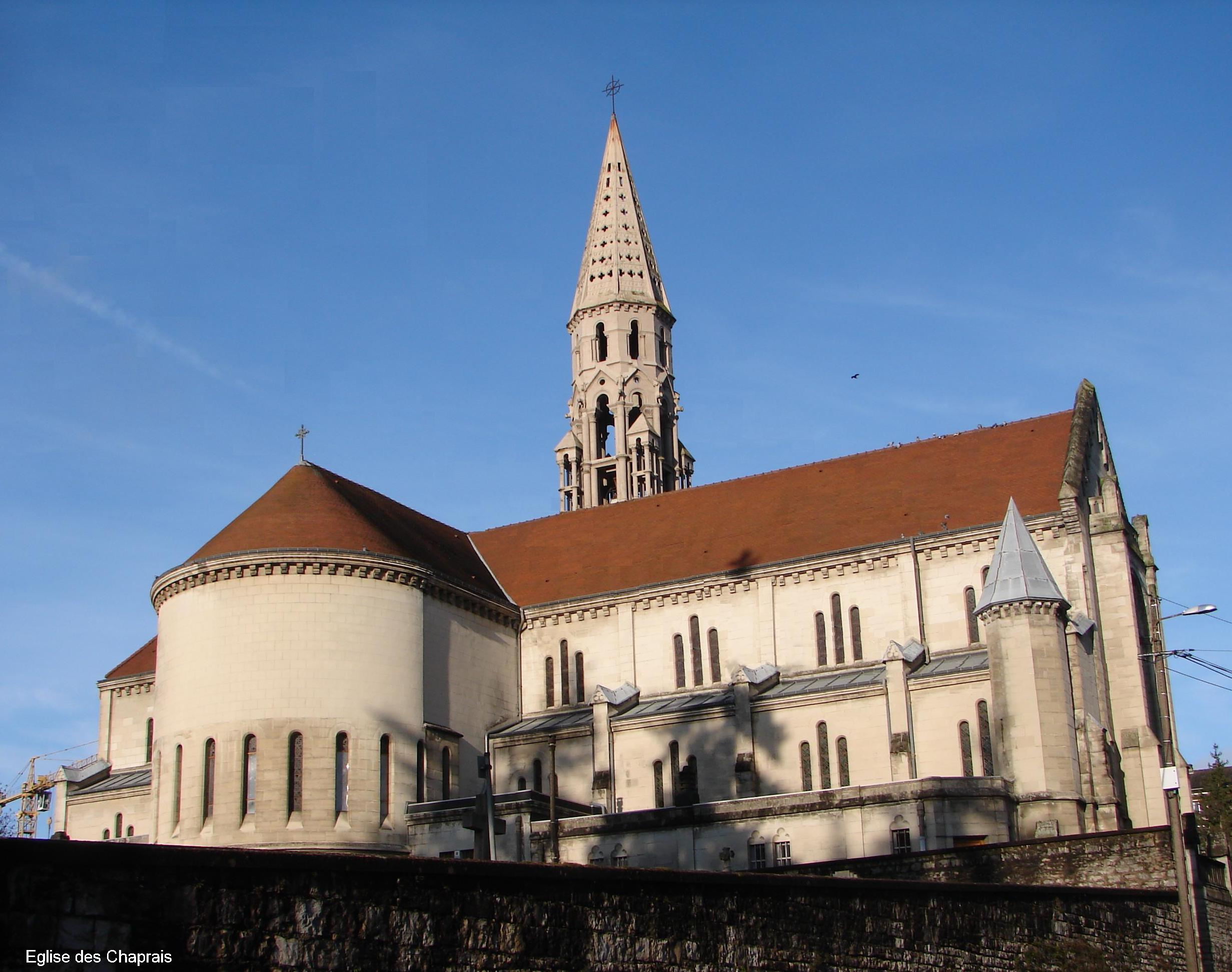 Saint-Martin church, located in Besançon (Doubs, France).